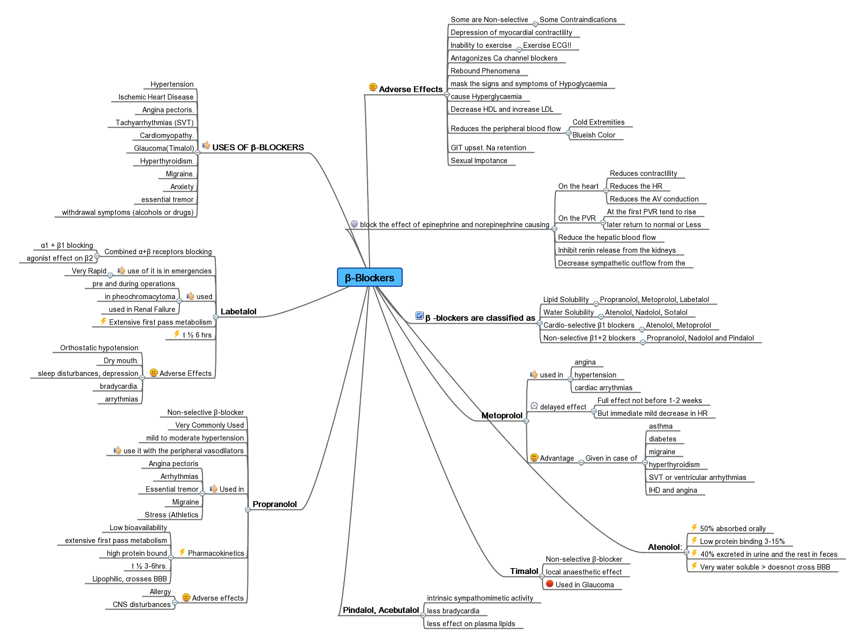 Contents 1 Madhero88Medical Mind Maps 2 Licensing 3 Original upload log 4 Original upload log Madhero88Medical Mind Maps[edit] Lower Limb Muscle innervation Neuromuscular blockers nondepolarizing agents Neuromuscular depolarizing agents Excess Lead Upper Limb Muscle innervation Upper Arm Fractures Metabolic Syndrome mind map Aspirin Aspirin Adverse effects and Drug interactions Shoulder Joint Axilla Carpal Tunnel and Carpal tunnel syndrome Mind map showing a Summary of Growth Hormone Physiology Request A Mind Map, Please Be very Specific and add any pictures or pictures link you want to add to the mind map